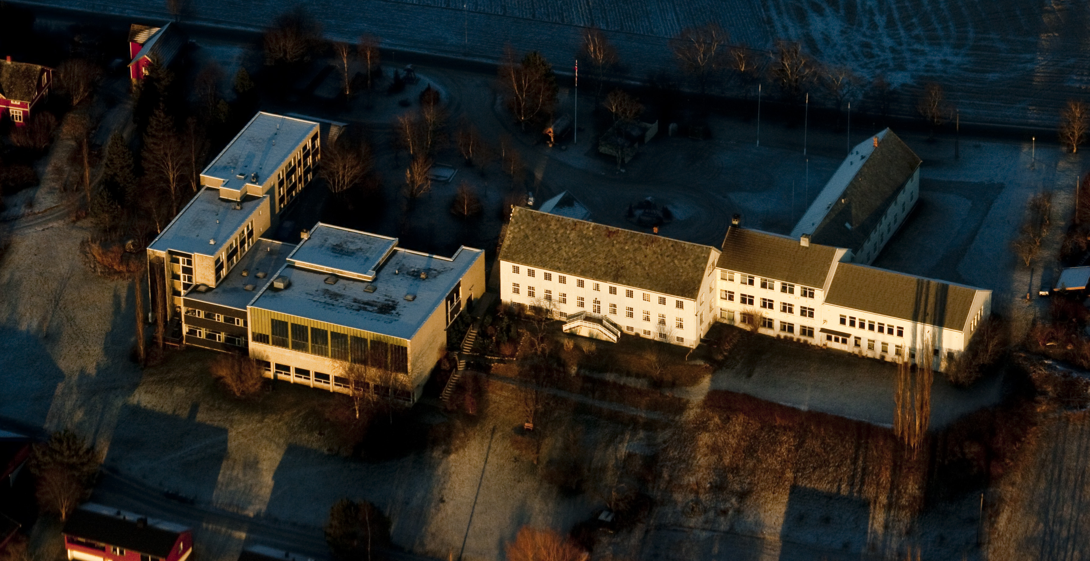 Sund Folkehøgskole from a aeroplane